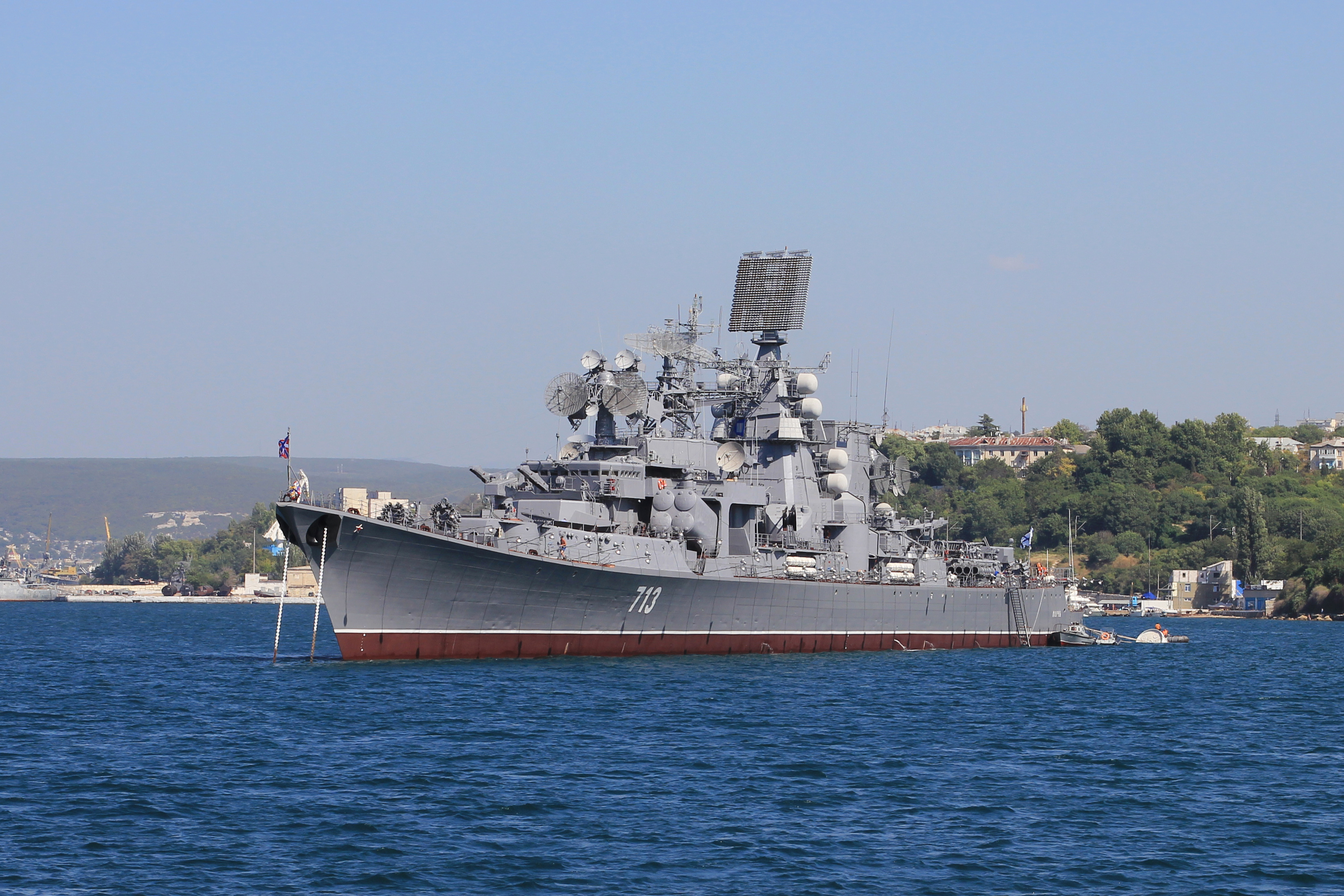 Large ASW Destroyer (also known as cruiser) "Kerch" (Kara class). Project 1134B. Photo taken in Sevastopol bay from a boat.